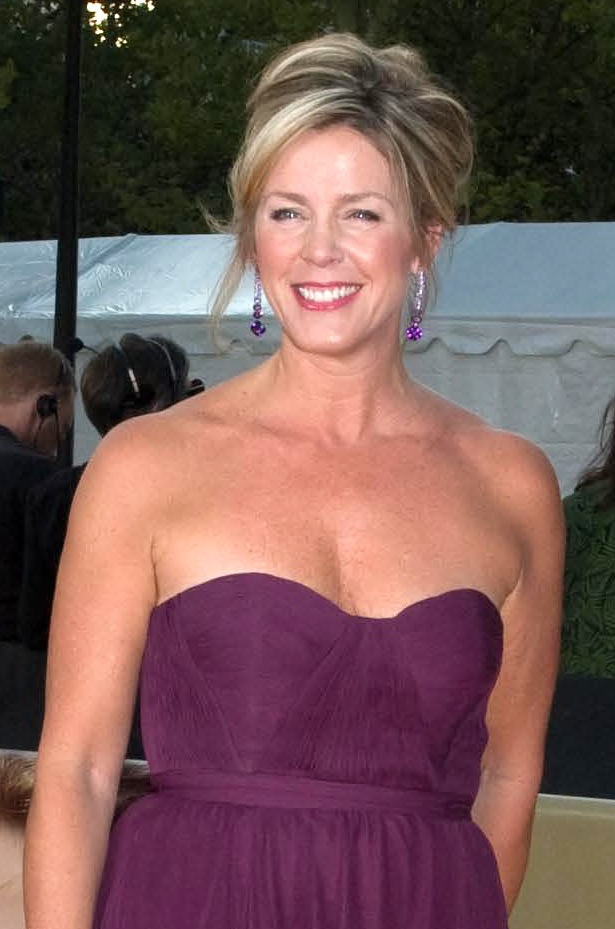 Deborah Norville at the Metropolitan Opera opening in 2008. © Rubenstein, photographer Martyna Borkowski